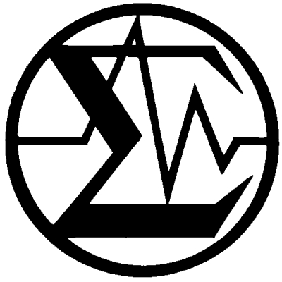 Sigma is a symbol of Academgorodok (Novosibirsk, Russia)